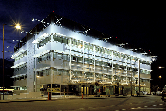 Office Building at the Athens International Airport «Eleftherios Venizelos» (1st Prize)